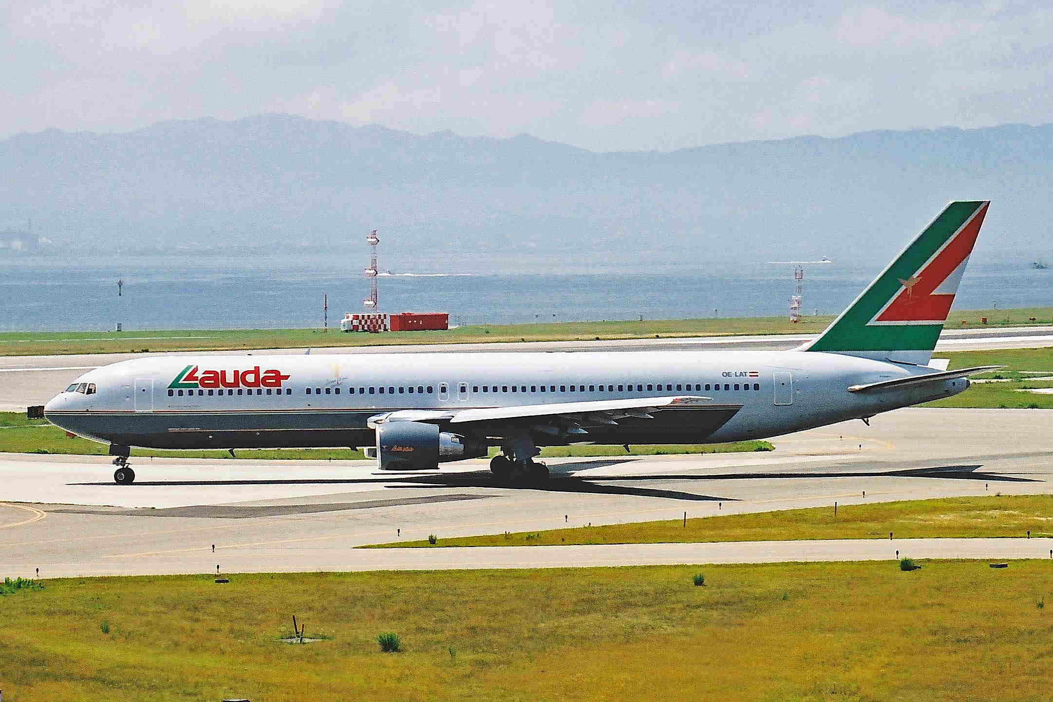 Around the Milennium, Lauda Air Austria formed Lauda Air Italy and added the green to the colour scheme to form the Italian National colours. If memory serves they used this B767 plus a CRJ.100. the aircraft remained Austrian registered and it wasn't long before they were absorbed back into Lauda Austria.